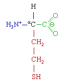 The chemical structure of Homocysteine H Padleckas created this image file in May 2005 for use in the article "Homocysteine" in Wikipedia.Modified by BorisTM - cut the wording out of the image.